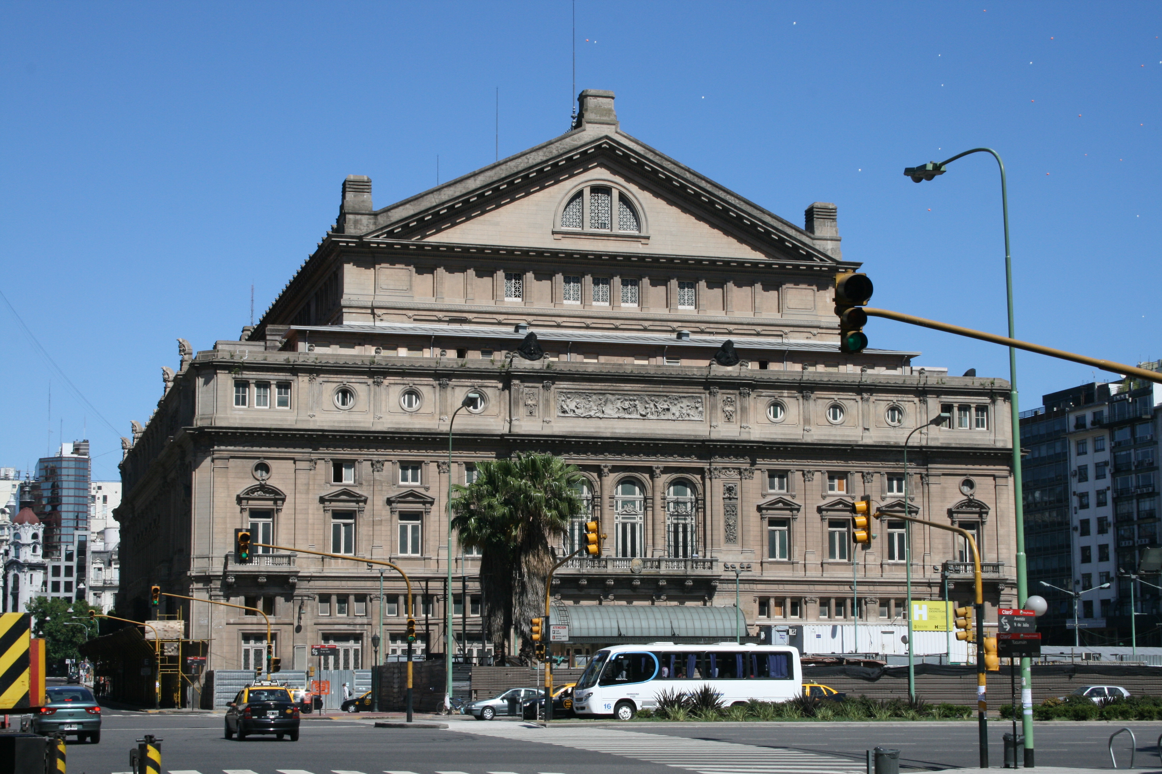 Image of the Teatro Colón in 2008.